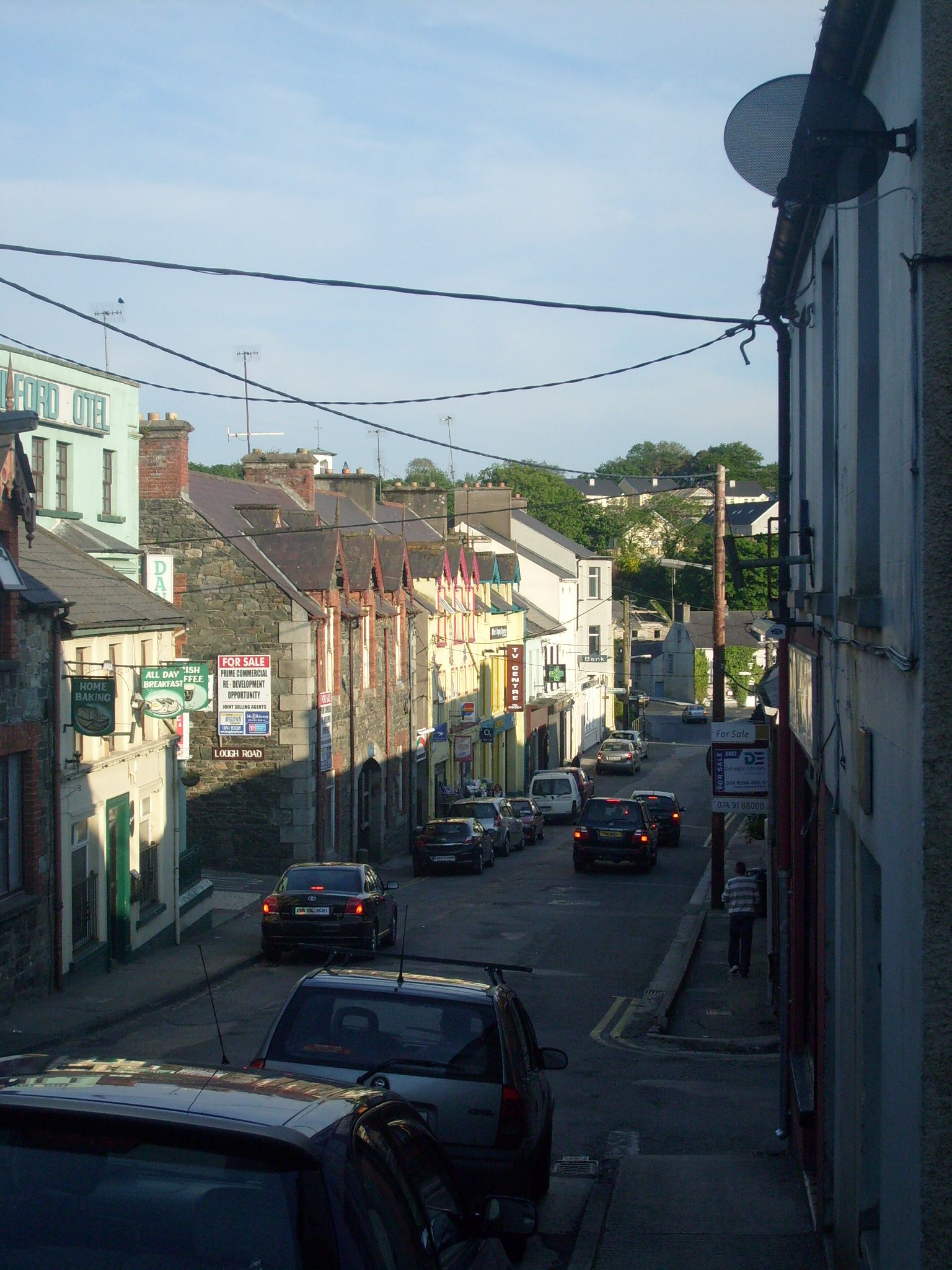 Milford main street, Co. Donegal, Ireland